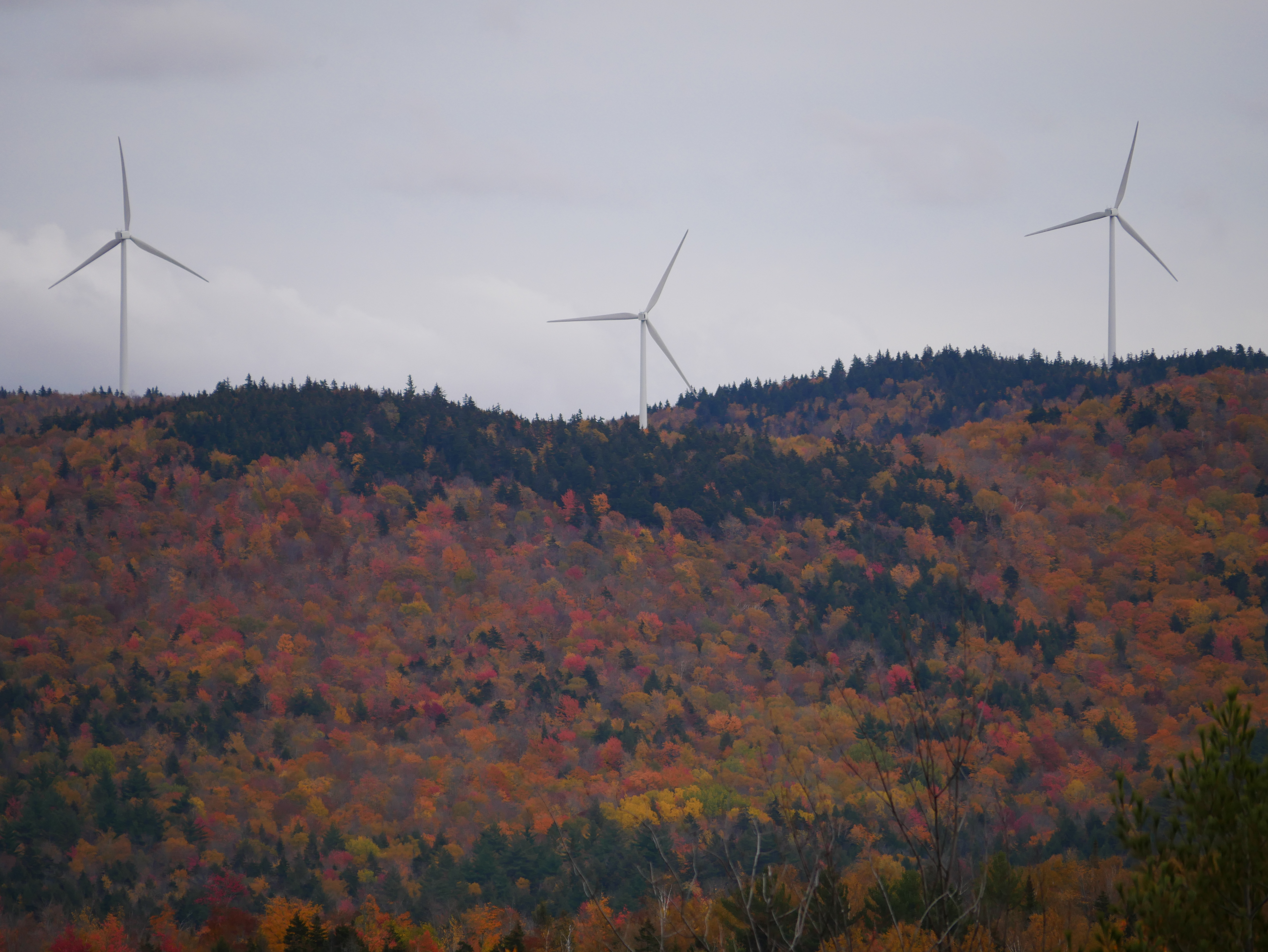 Spruce Mountain Wind Farm during peak fall foliage season in Oxford County, ME, as seen from nearby Bryant Mountain in the west.